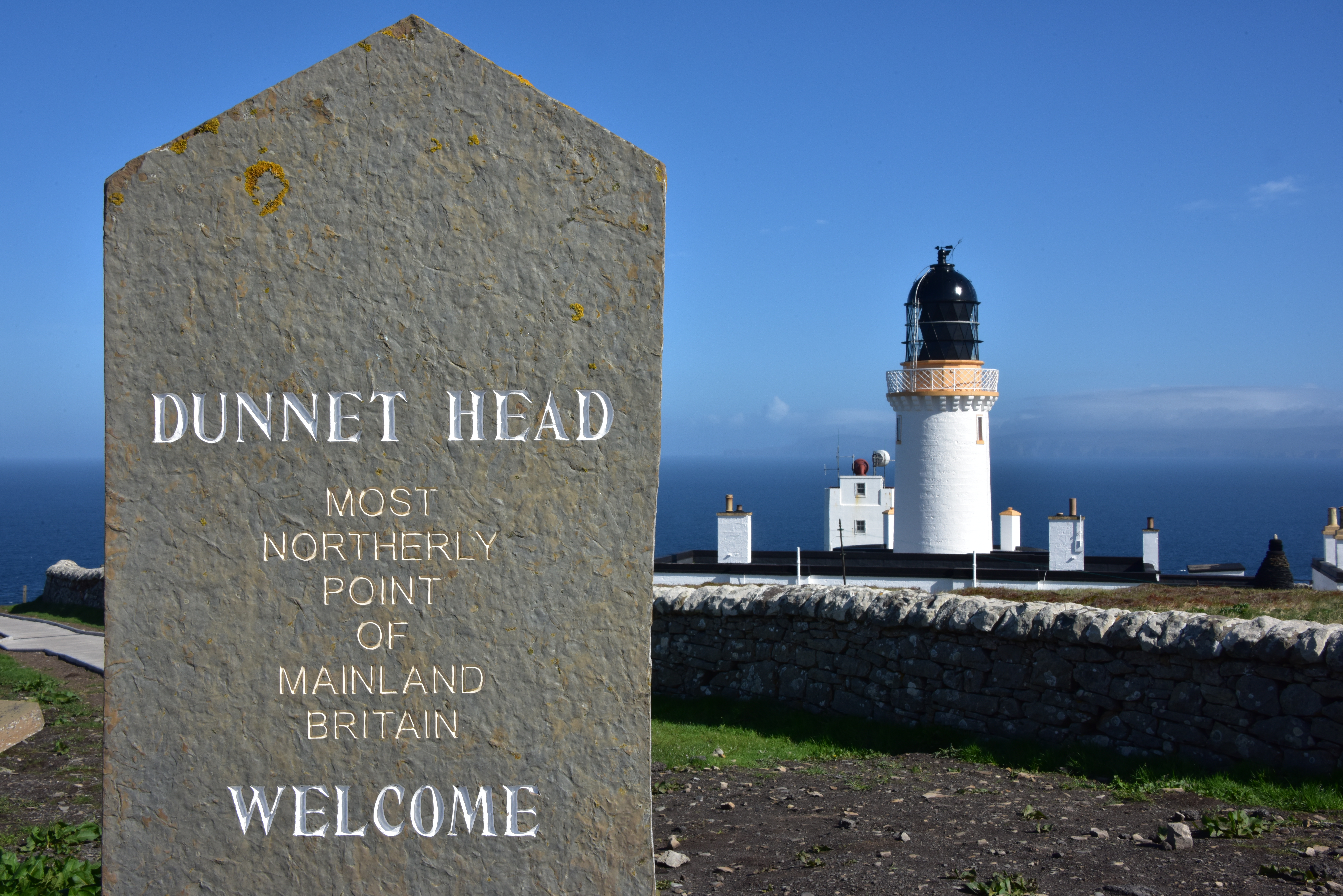 John o' Groats is the traditional northernmost point of Great Britain; Dunnet Head, some miles northwest, is the real one.